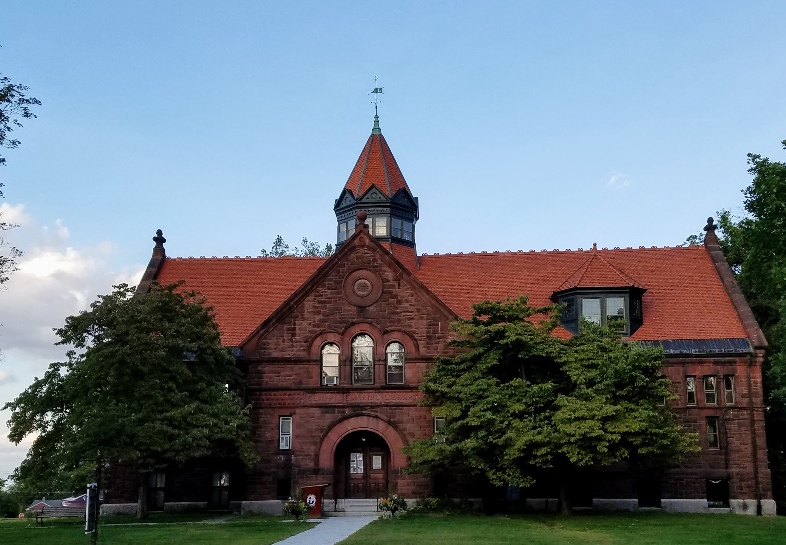 The Clapp Memorial Library, built by bequest of Belchertown, MA native John Francis Clapp, dedicated June 30, 1887.